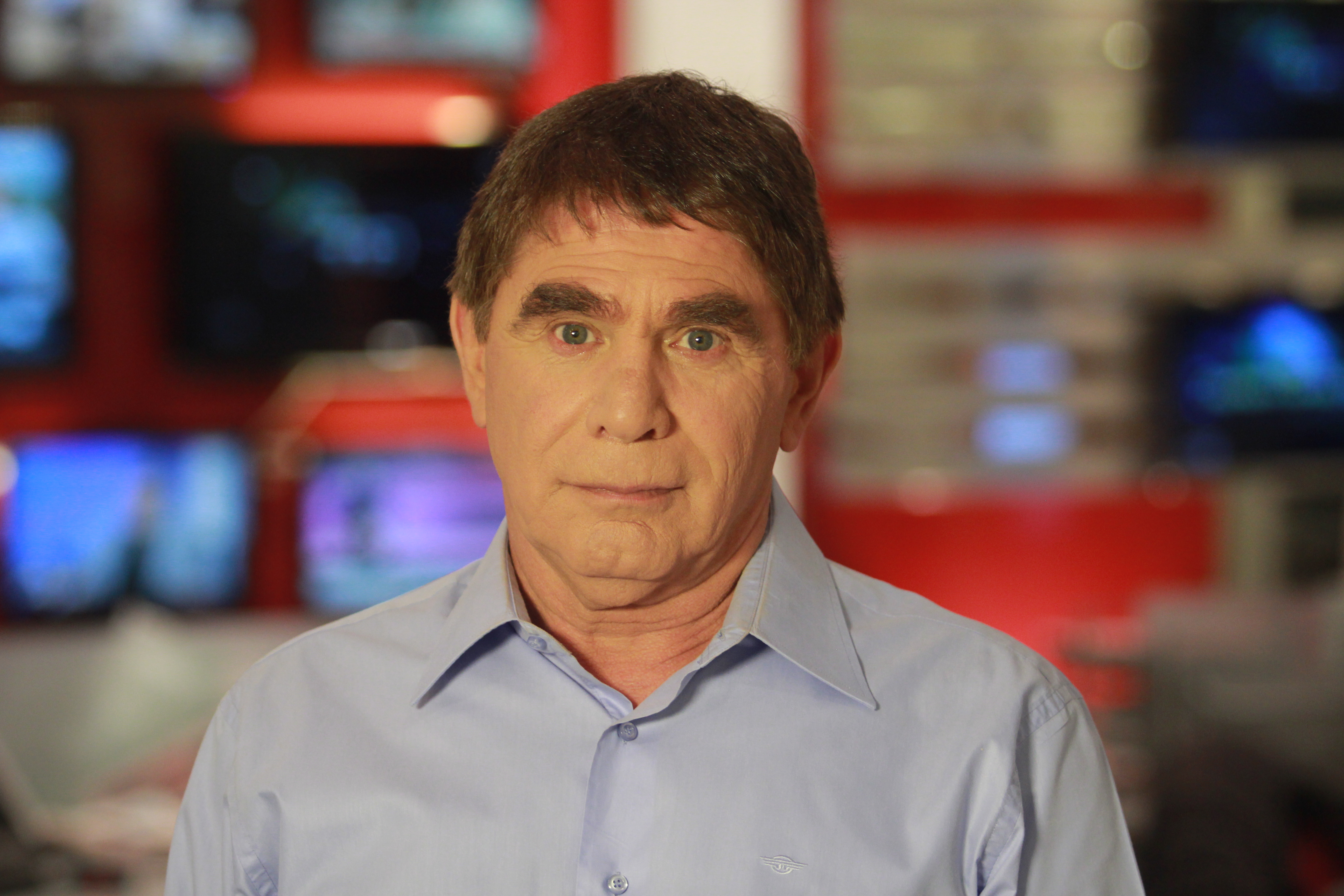 Moshe Nusbaum